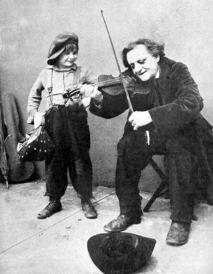 Photo of Jackie Coogan from the 1923 film Daddy.